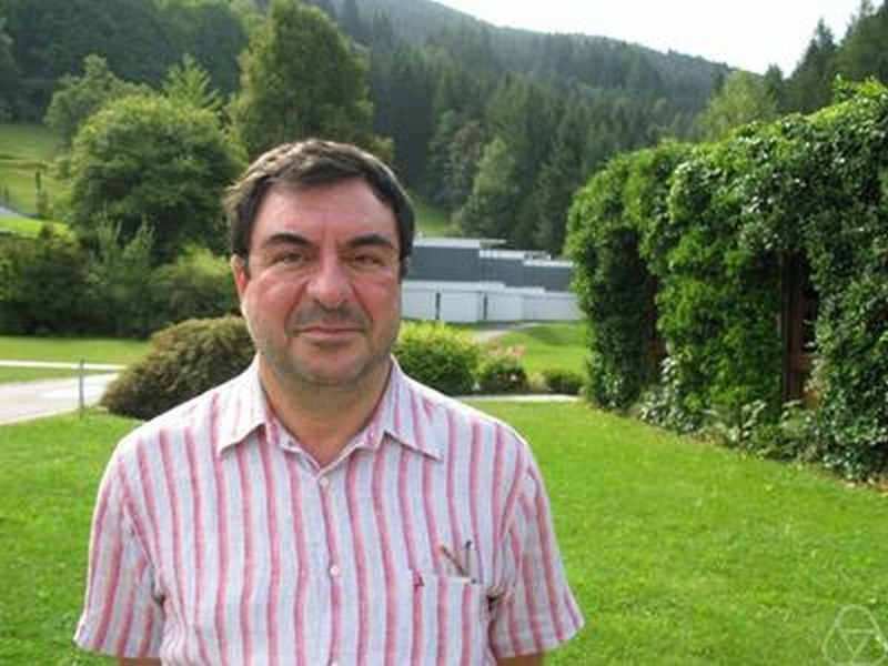 Lucien Birge, Oberwolfach 2009